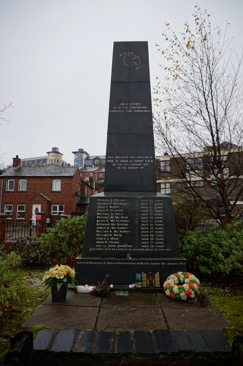 Bloody Sunday Memorial